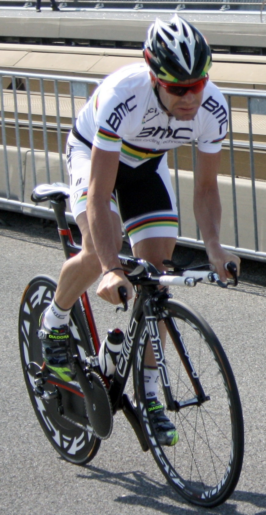 Cadel Evans training for the prologue of the 2010 Tour de France in Rotterdam